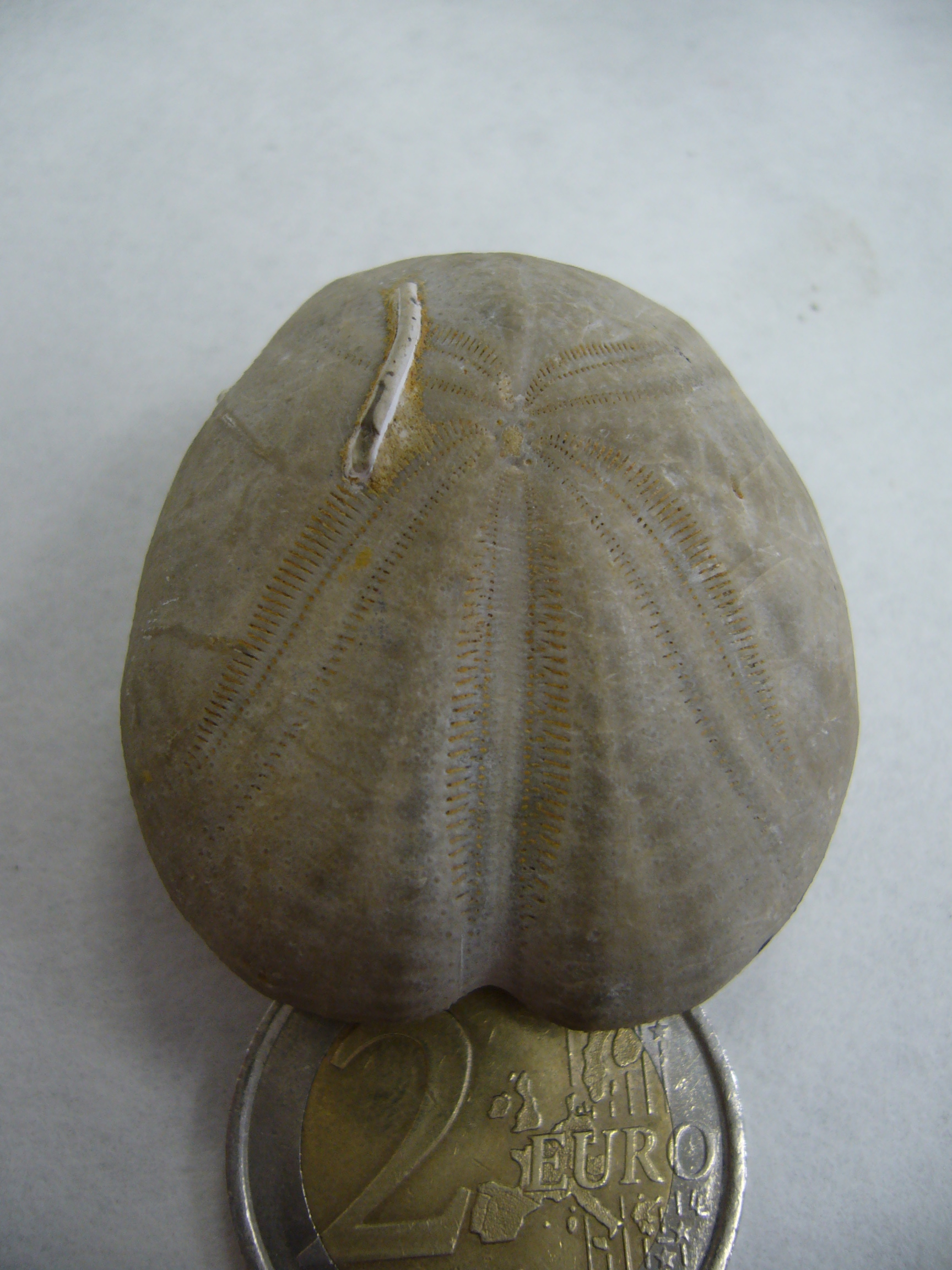 Heteraster oblongus fossil (Cretácico inferior) founded in Castellón, in a laboratory of practices of the Faculty of Sciences of the University of Corunna.